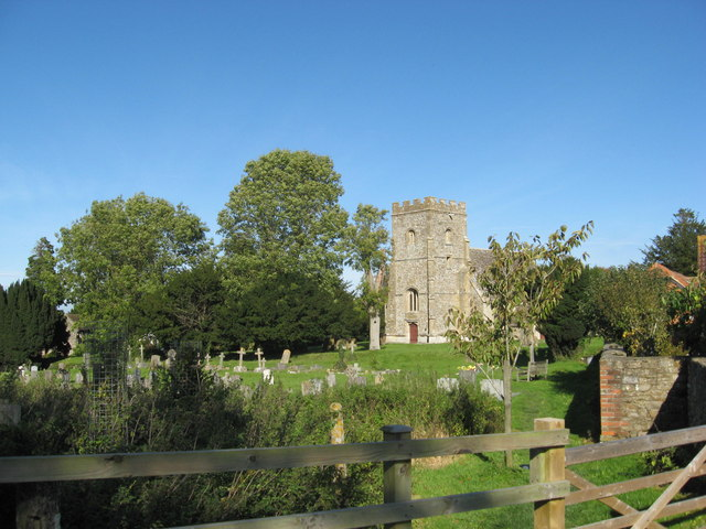 All Saints Churchyard Liddington A peaceful spot to rest in the autumn sunshine, with plenty of vegetation to sustain a range of wildlife.